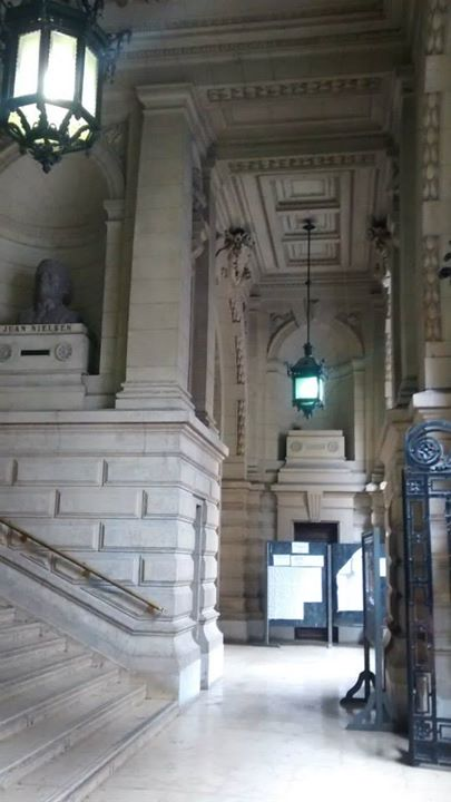 Colegio Nacional de Buenos Aires, Argentina. 7″ S, 58° 22′ 25.5″ W Argentina has no "freedom of panorama" provision in its copyright law, neither are buildings mentioned among works to which copyright apply. At least some think there is de facto freedom of panorama in Argentina regarding buildings: It is uncontroversially accepted that buildings can be reproduced by paintings or photographs, without this reproduction infringing copyright. "Se ha admitido pacificamente que los edificios puedan ser reproducidos mediante pinturas o fotografías, sin estimarse que esta reproducción lesione los derechos de autor."— Dr. Emery, Miguel Angel (profesor of Intellectual property law in Argentina), Propiedad Intelectual, Astrea Editors 4th. edition ISBN 9789505085231. p.40 op cit Copyright law of Argentina (in Spanish) See COM:CRT/Argentina#Freedom of panorama for more information.